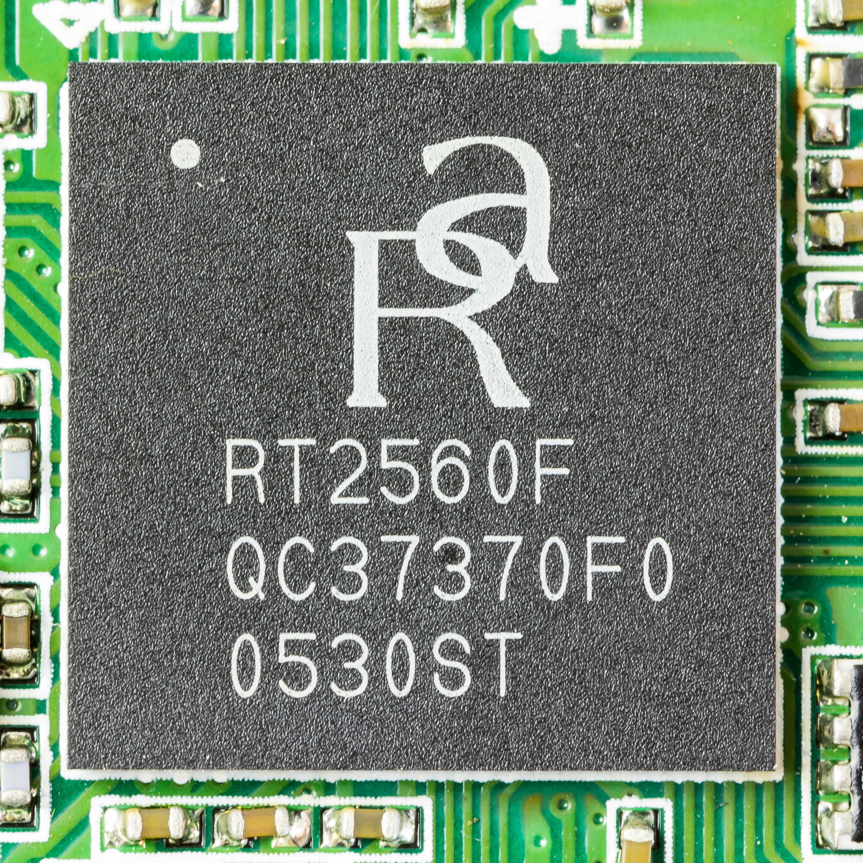 Ralink RT2560F on Gemtek WiFi Mini PCI Card WMIR-103G